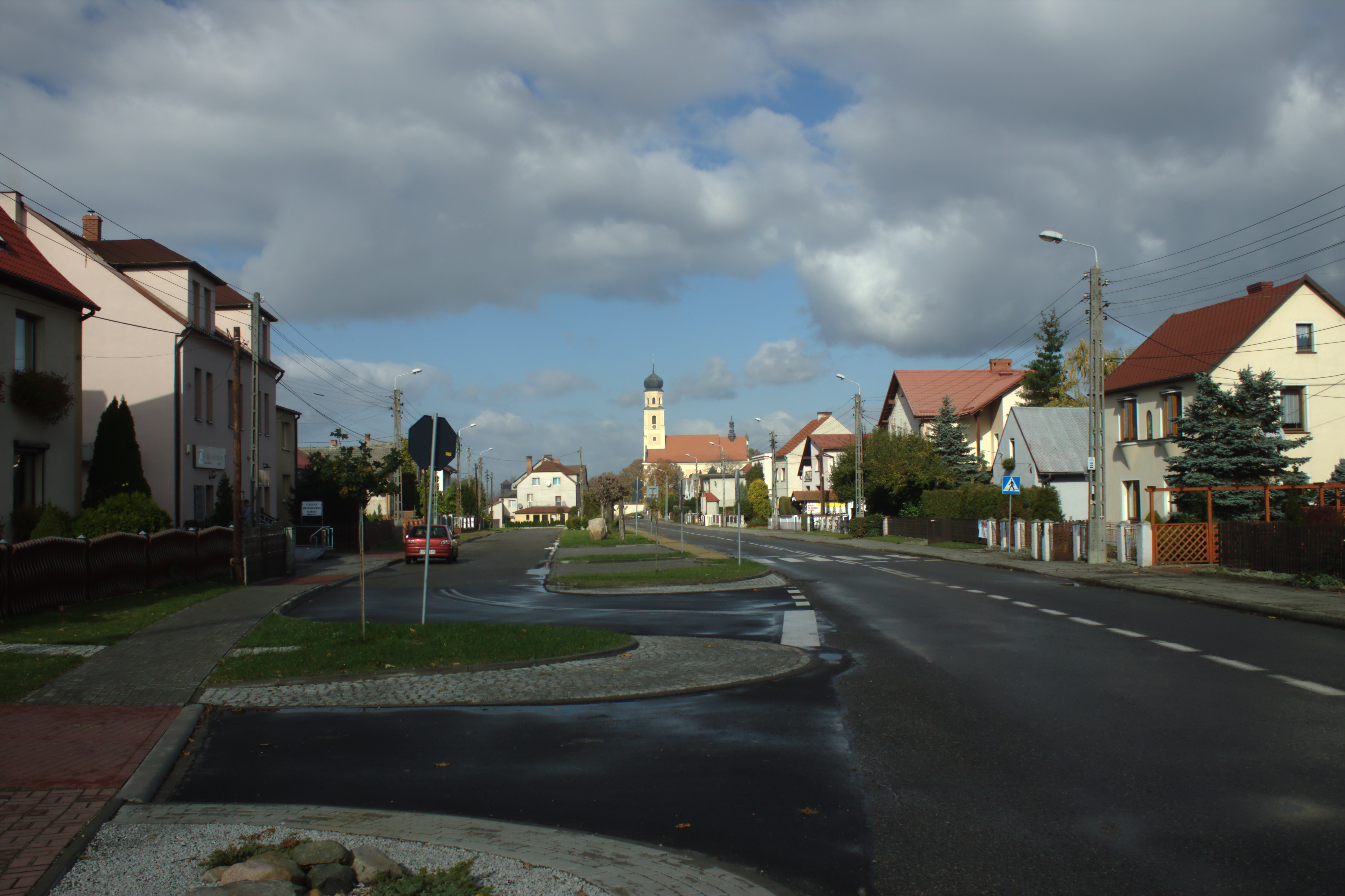 Main square in Tworków, Poland